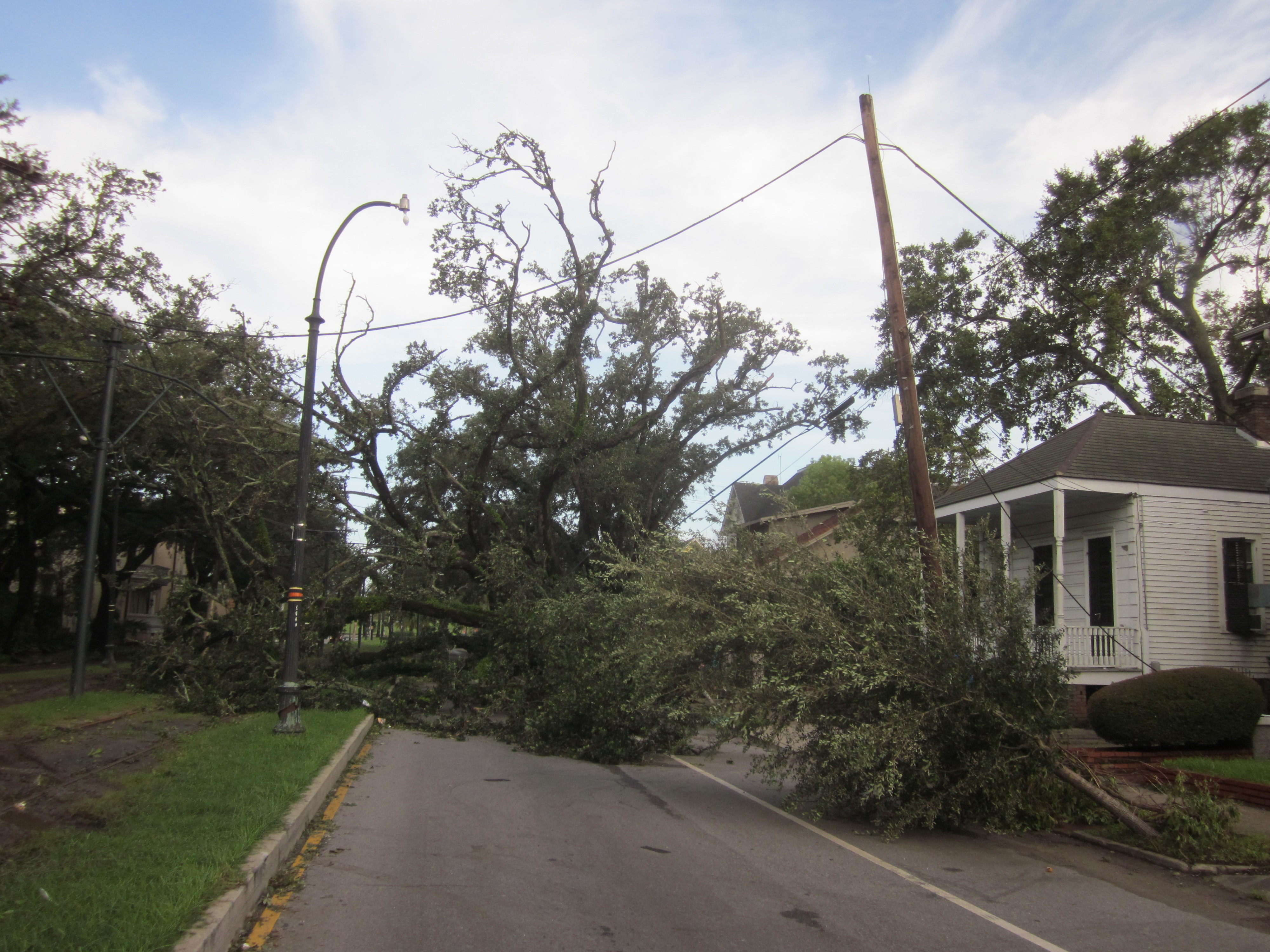 Aftermath of Hurricane Isaac in New Orleans, Louisiana. Part of St. Charles Avenue blocked by tree falls